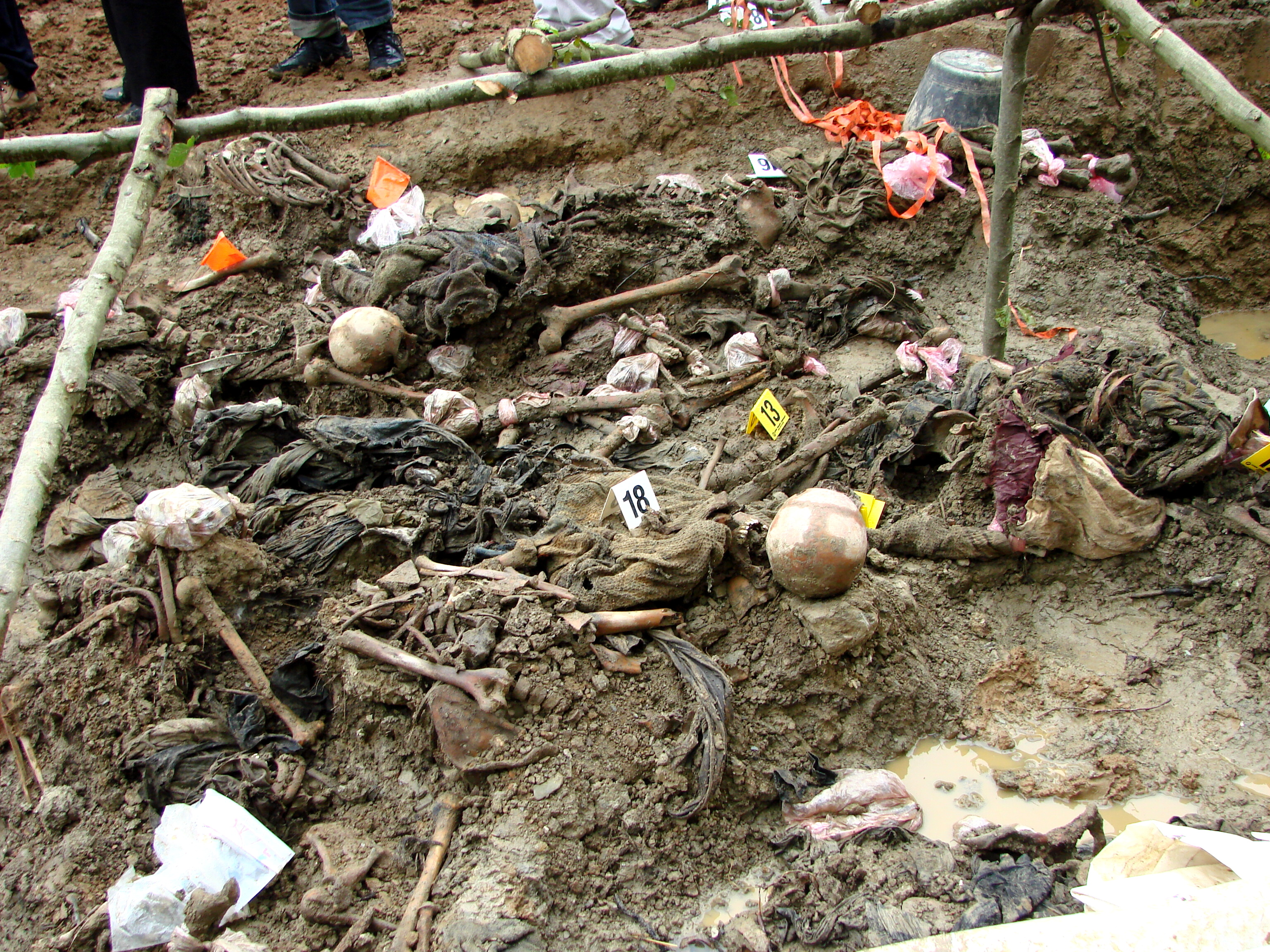 An exhumed mass grave in Potocari, Bosnia and Herzegovina, where key events in the July 1995 Srebrenica Massacre unfolded. July 2007.